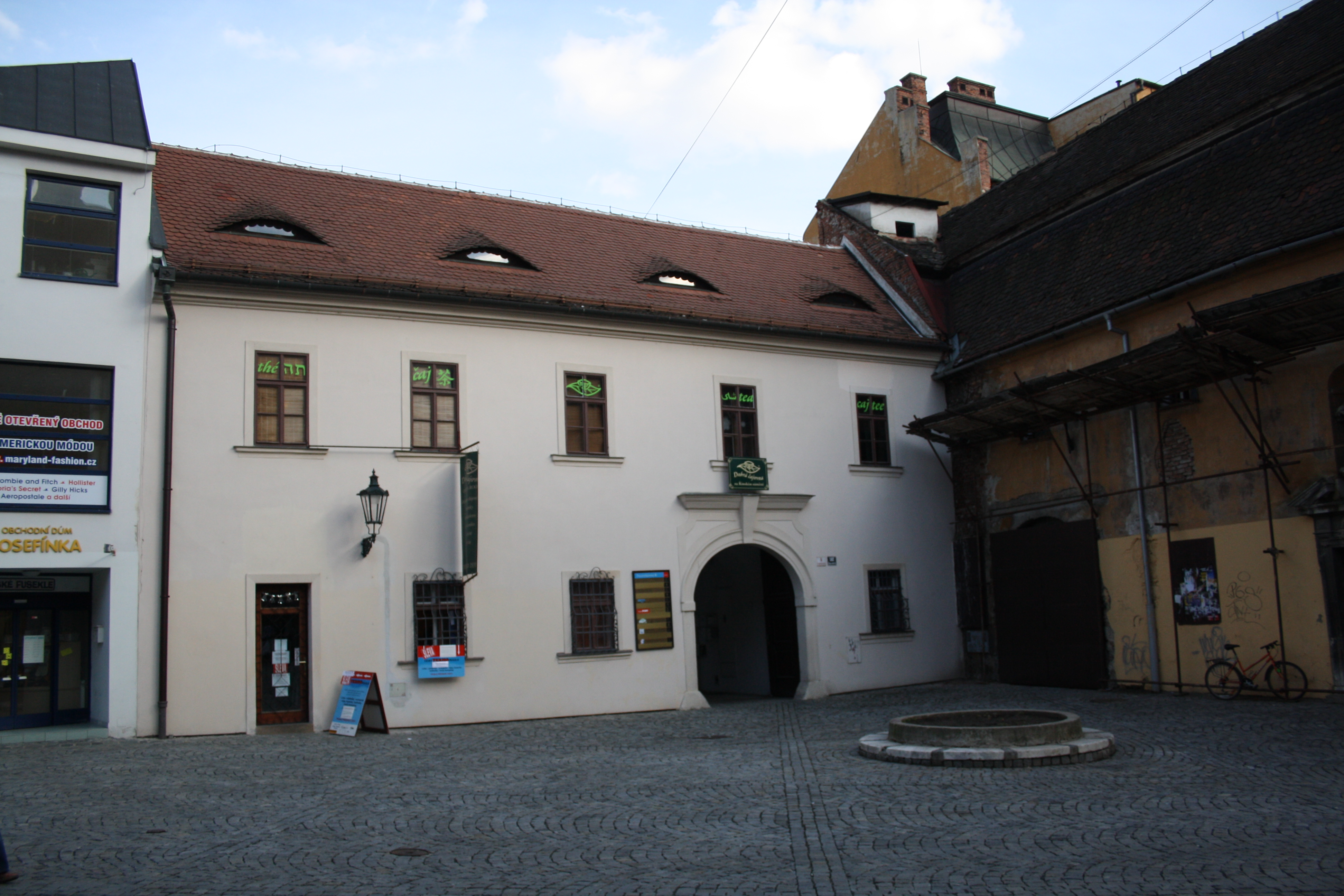 Tearoom Dobrá čajovna in Brno-Center.